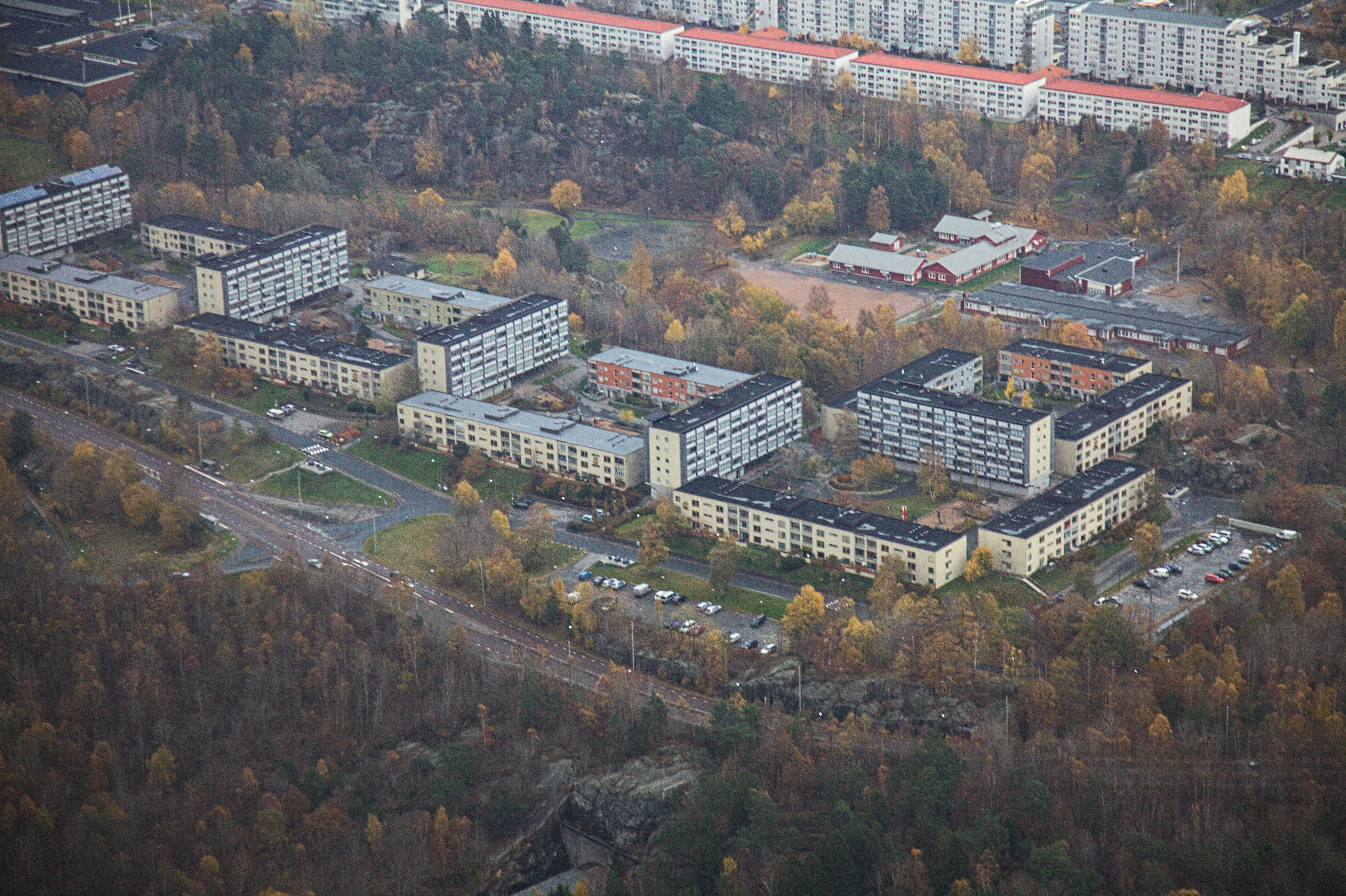 Photo taken on a helicopter over Gothenburg